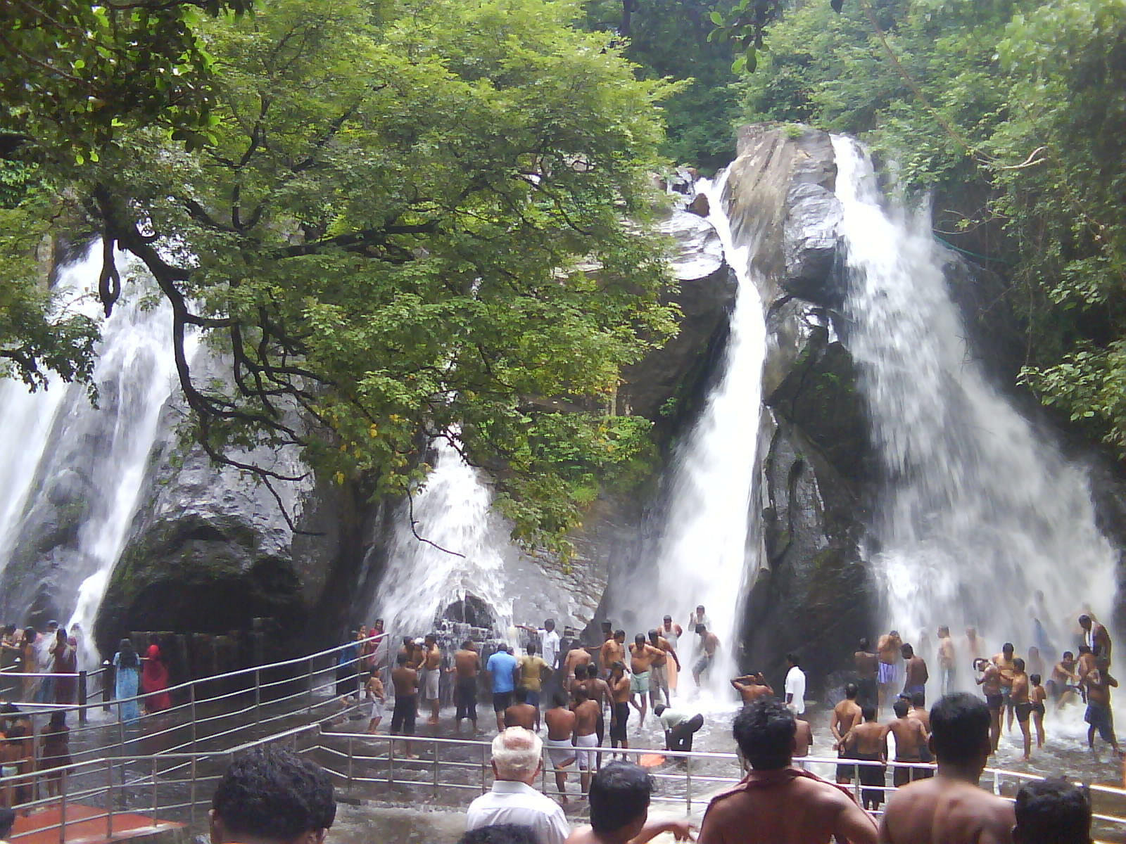 Five Falls situated about 5 kms from Courtrallam Main Falls. Five separate cascades of water form this waterfalls.